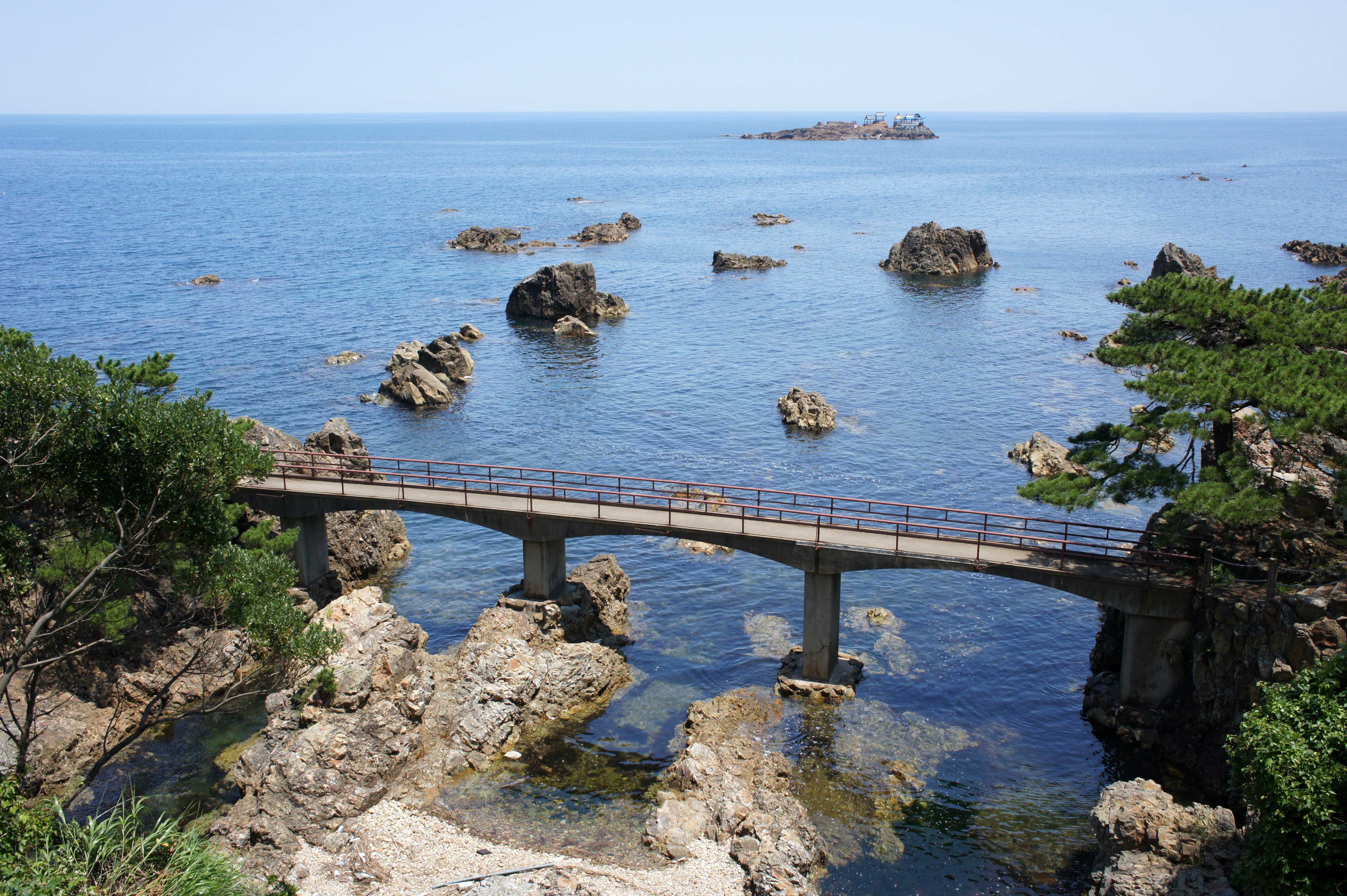 Hiyoriyama Coast in Toyooka, Hyogo prefecture, Japan.